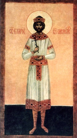 Icon of St Yaropolk